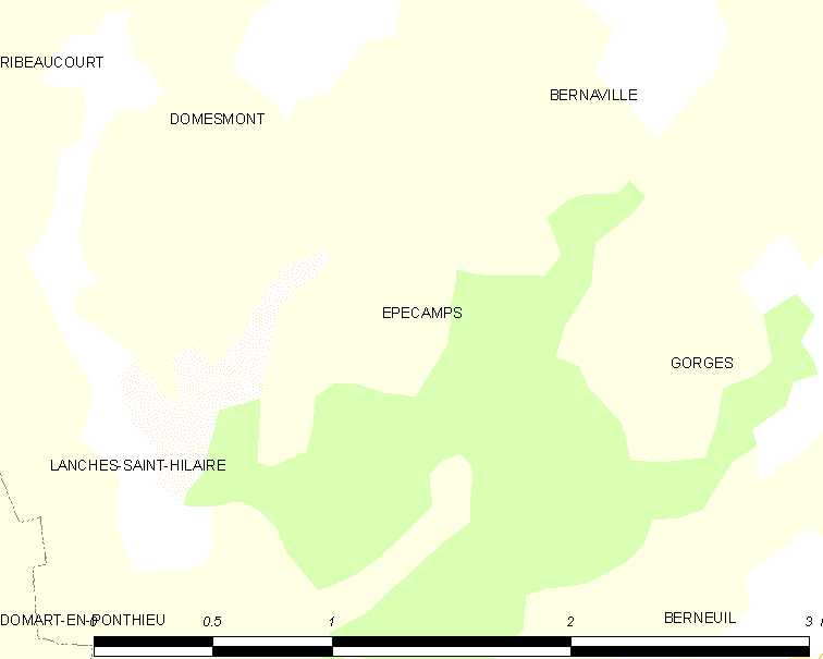 Map of French municipality Épécamps